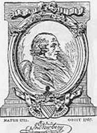 John Newbery (1713-1767) frontispiece